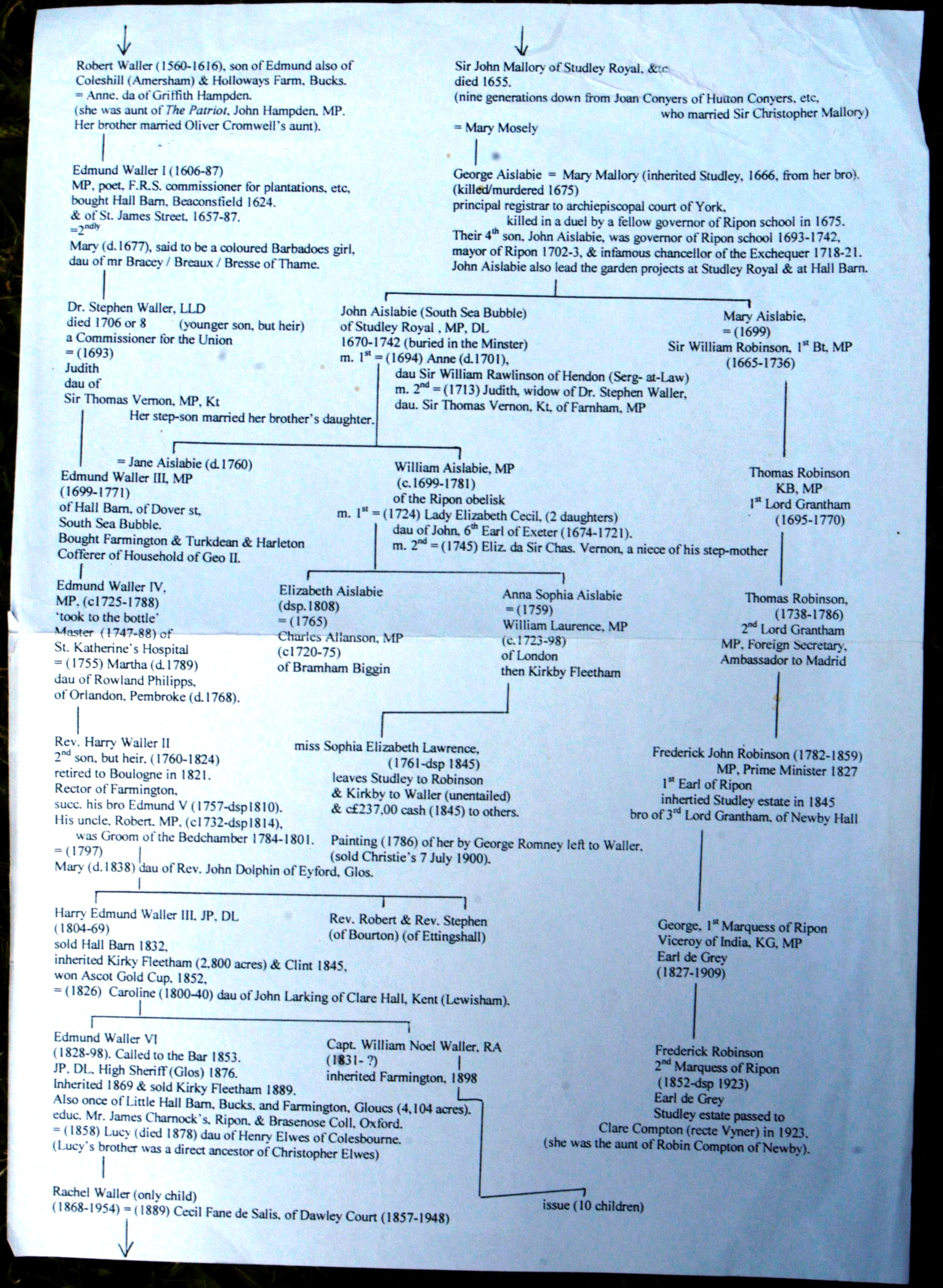 My photo of my chart (R. de SalisRodolph (talk) 13:42, 29 May 2014 (UTC)), of Waller family, 1560-1954.